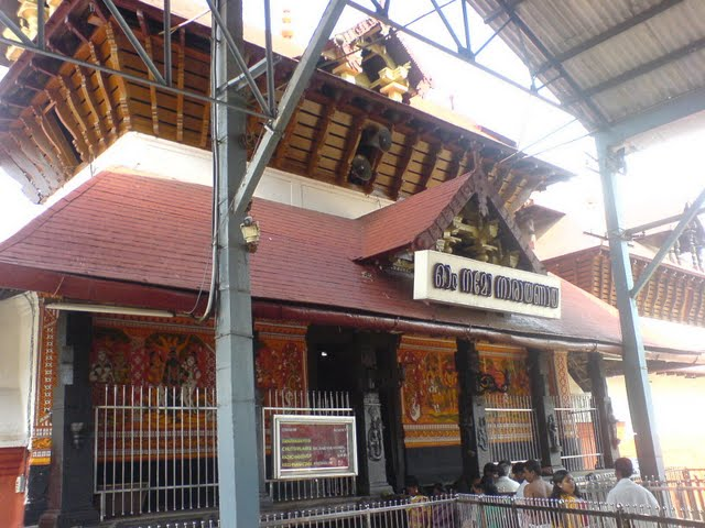 view